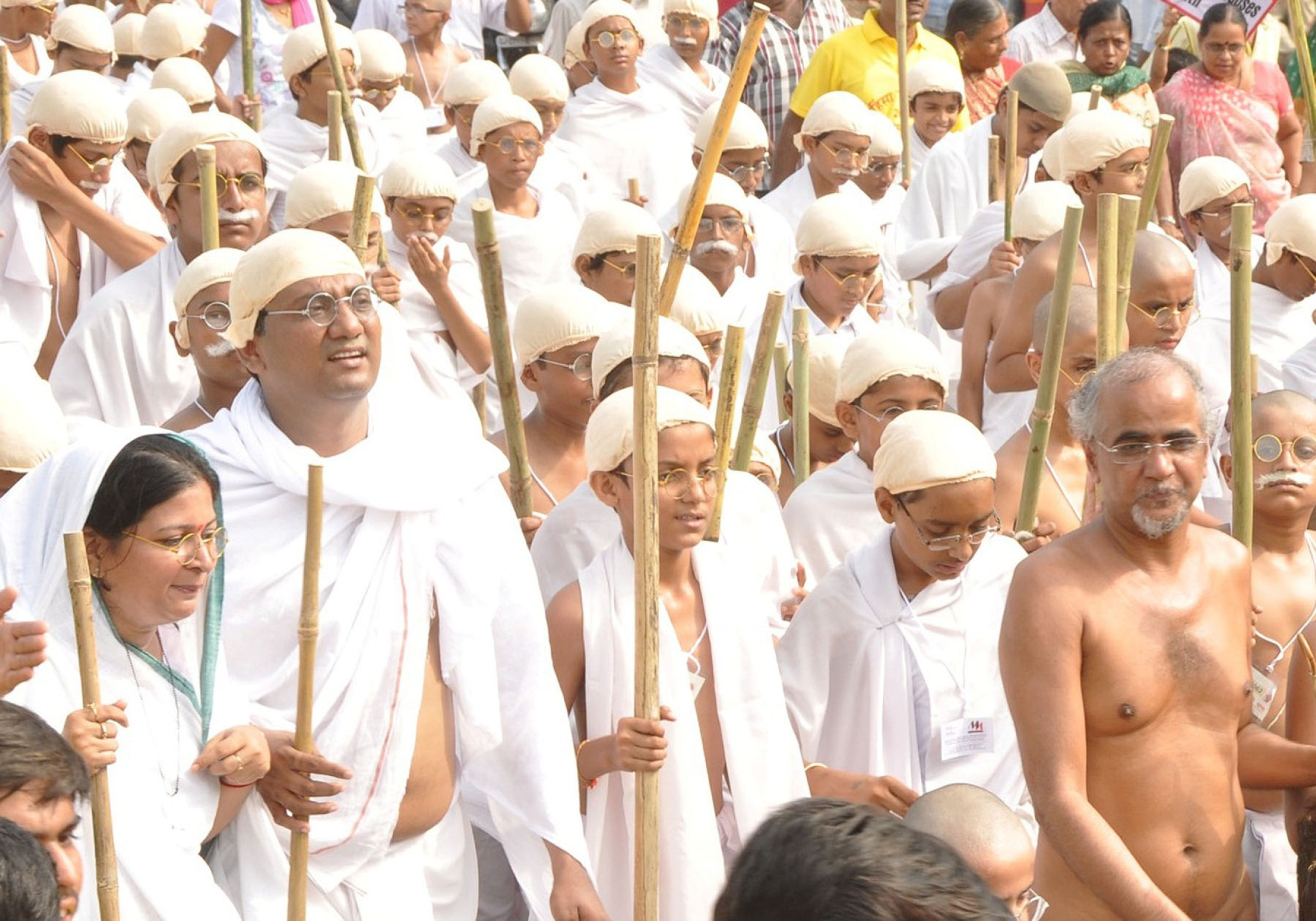 International trainer, author and motivational author Dr Ujjwal Patni posed as Mahatma Gandhi and his wife posed as Kasturba gandhi at Ahmedabad on 2 October 2012. The '1000 Gandhi' program was organised for making Guinness world records with the blessings of muni shri tarunsagar ji maharaj . The guinness world records confirmed this as a world record of 891 of maximum number of Gandhis at one place.